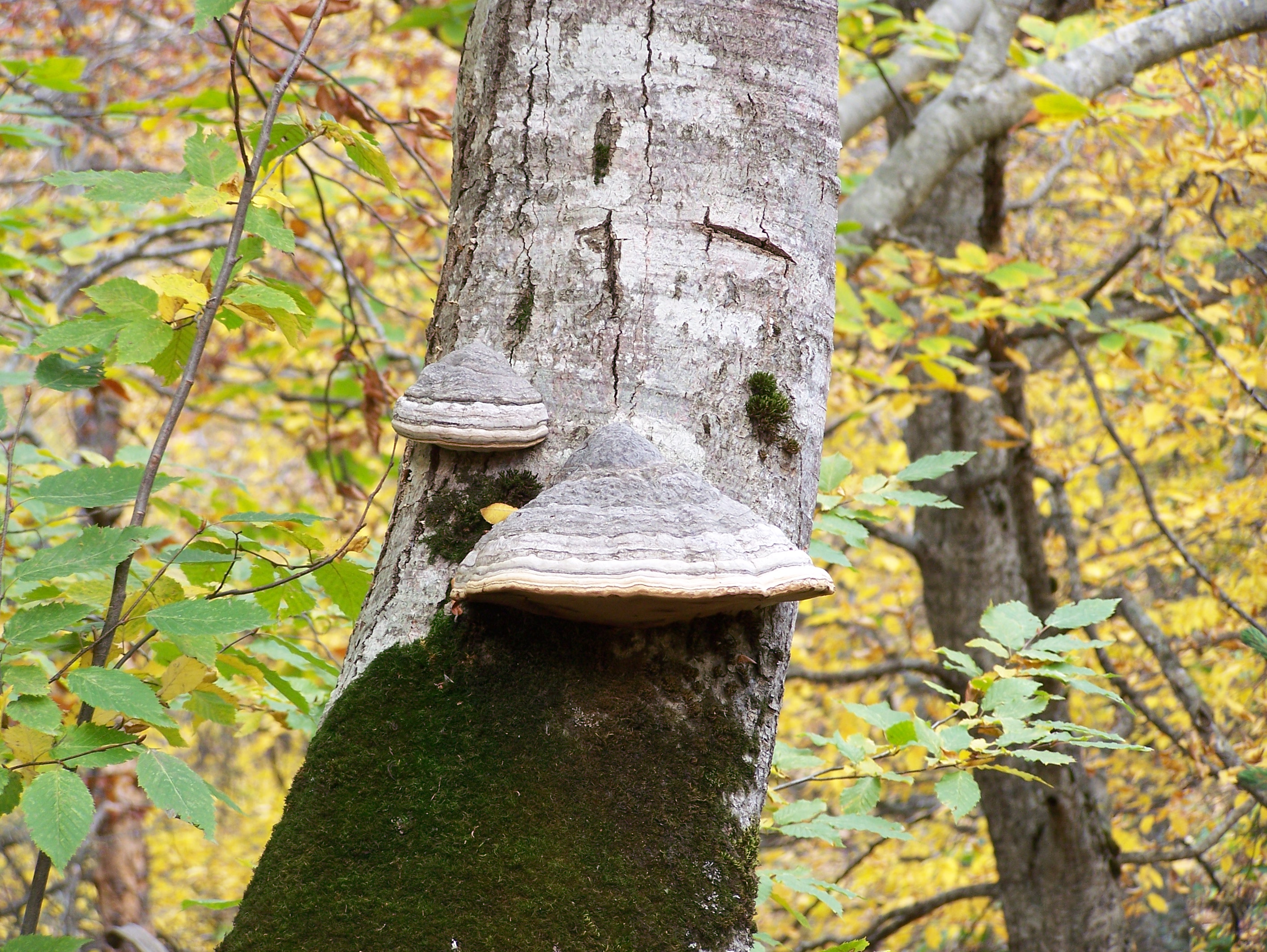 Algeti National Park (14 October 2007). 030